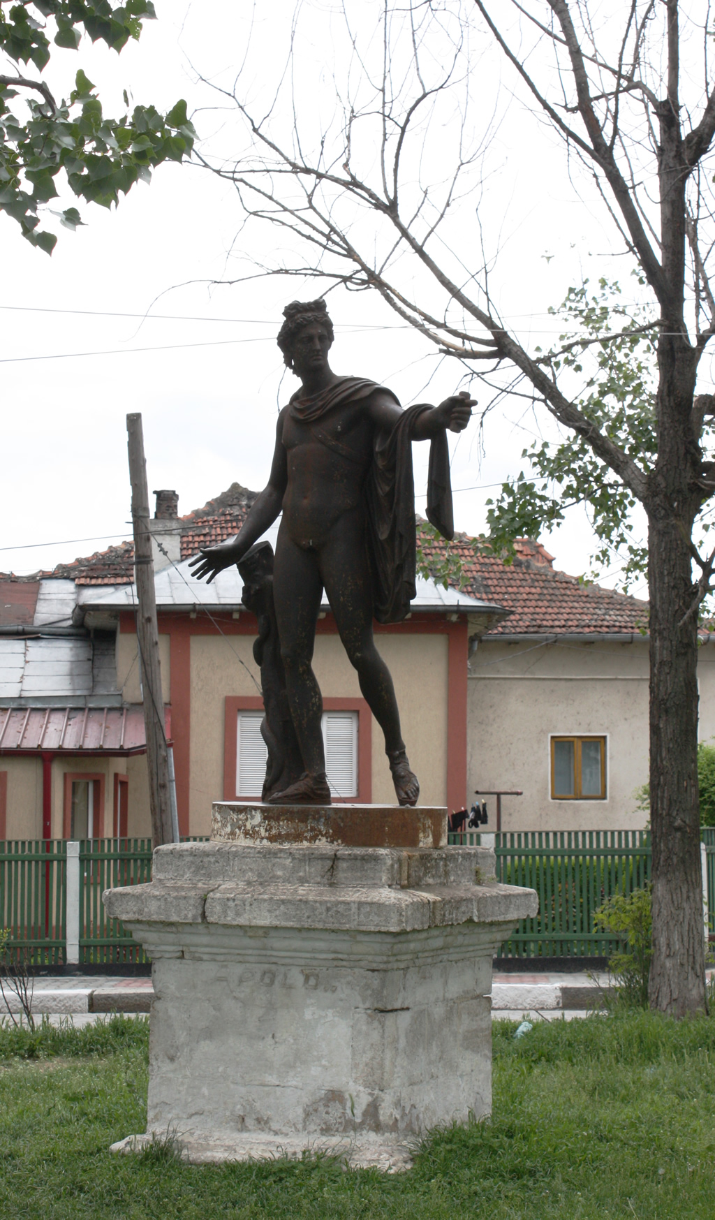 statue of Apollo in Giurgiu